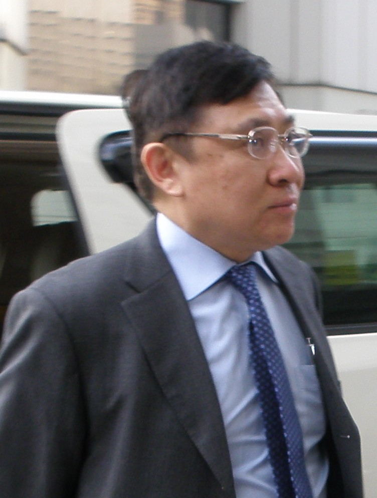 Raymond Kwok Ping-Luen, current chairman of Sun Hung Kai Properties in Hong Kong.